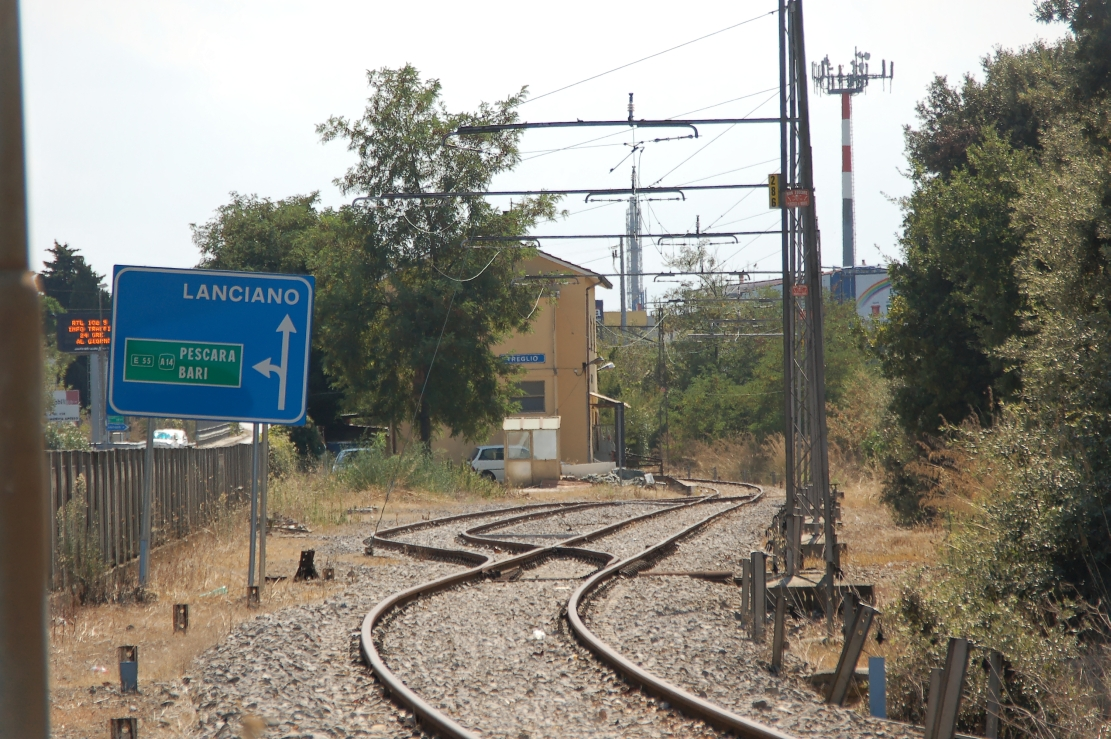 Treglio train station, Lanciano (Chieti), Italy.